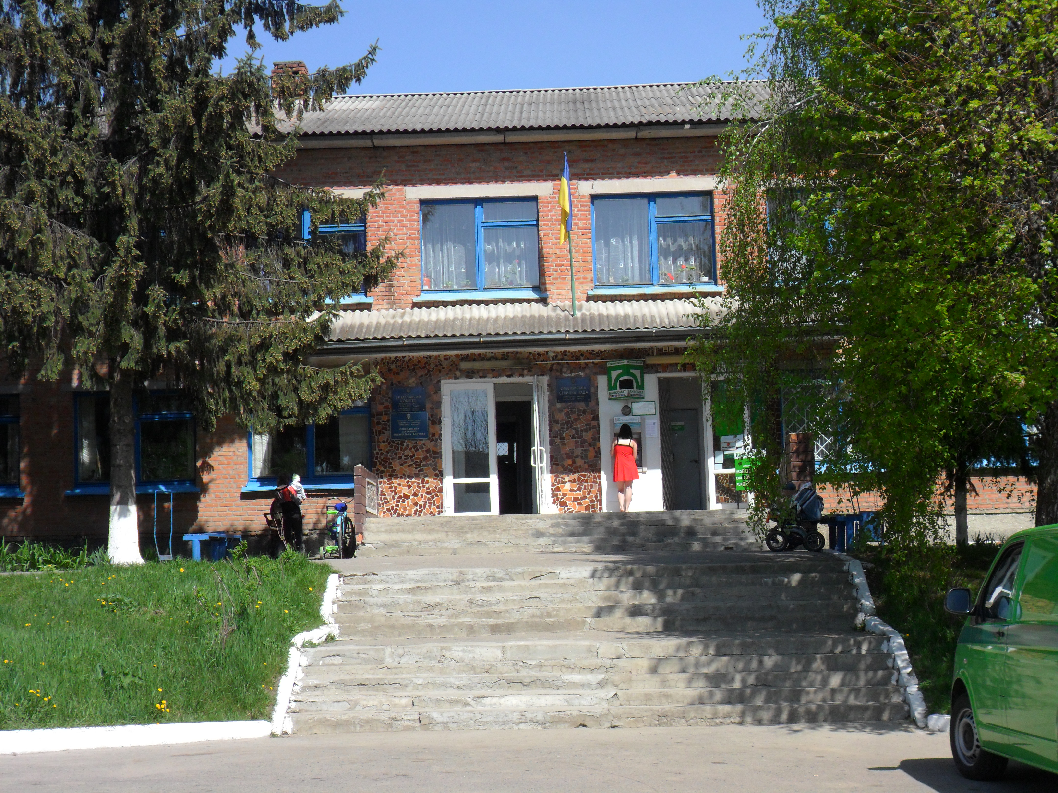 Building village council in Opishnya